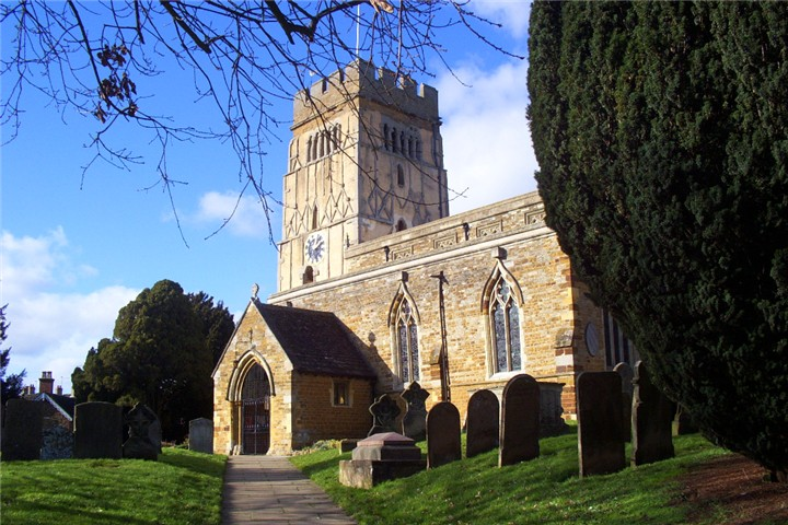 Earls Barton parish church, Northamptonshire, UK. taken by kev747